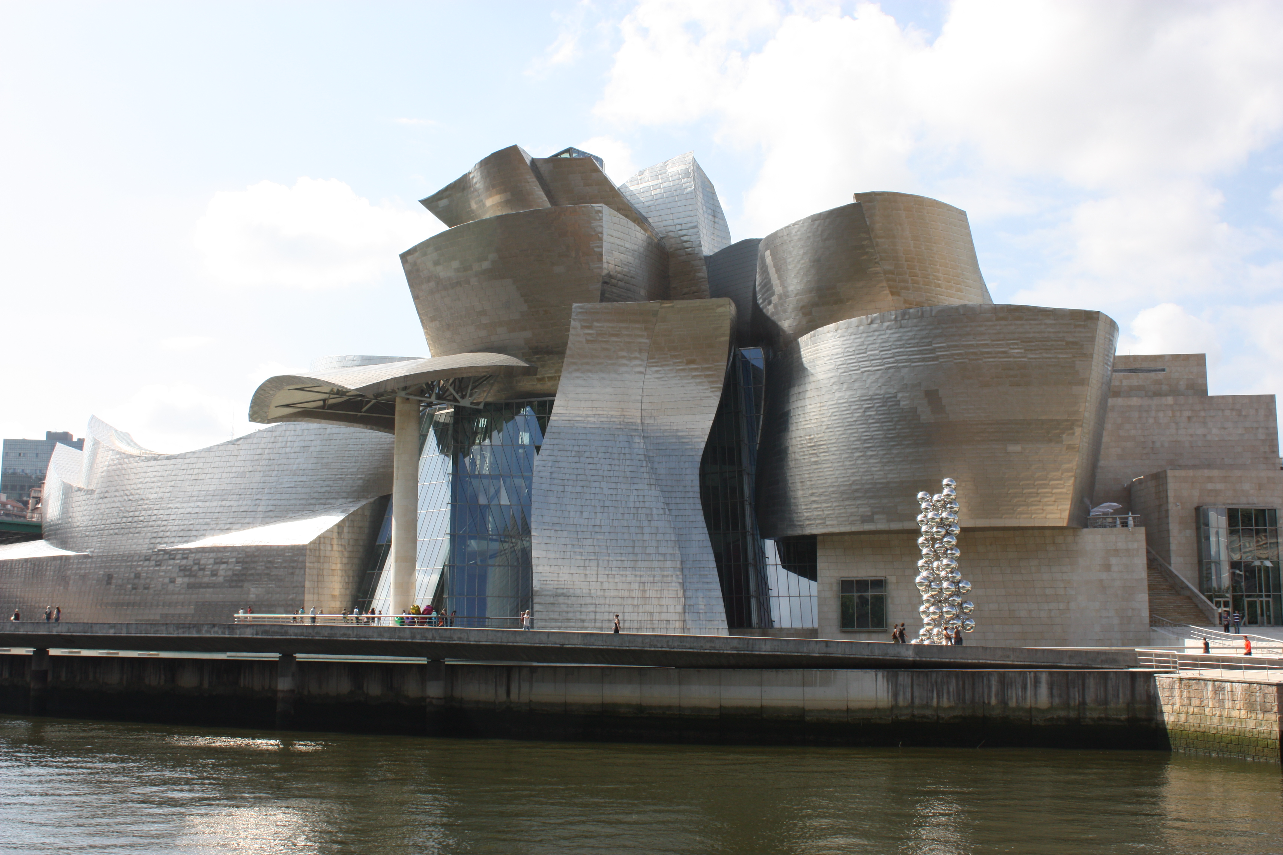 Guggenheim Museum, Bilbao, Biscay, Spain, July 2010 (viewed from opposite river bank)